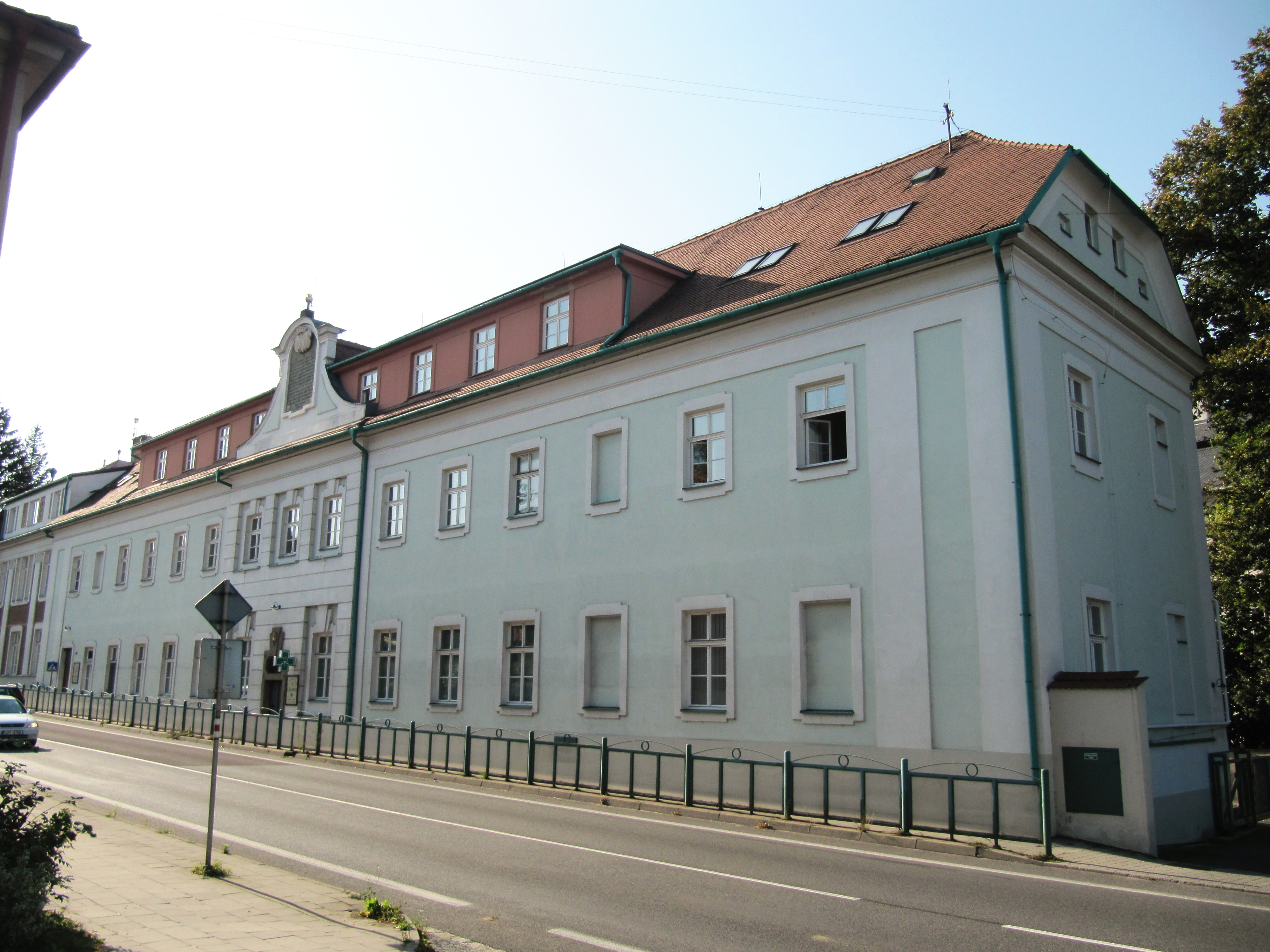 Vizovice in Zlín District, Czech Republic. Former monastery and Charity hospital, founded in 1781 by Countess of Blümegen, today private medical facility, hospital for long term patients and internal ambulance.